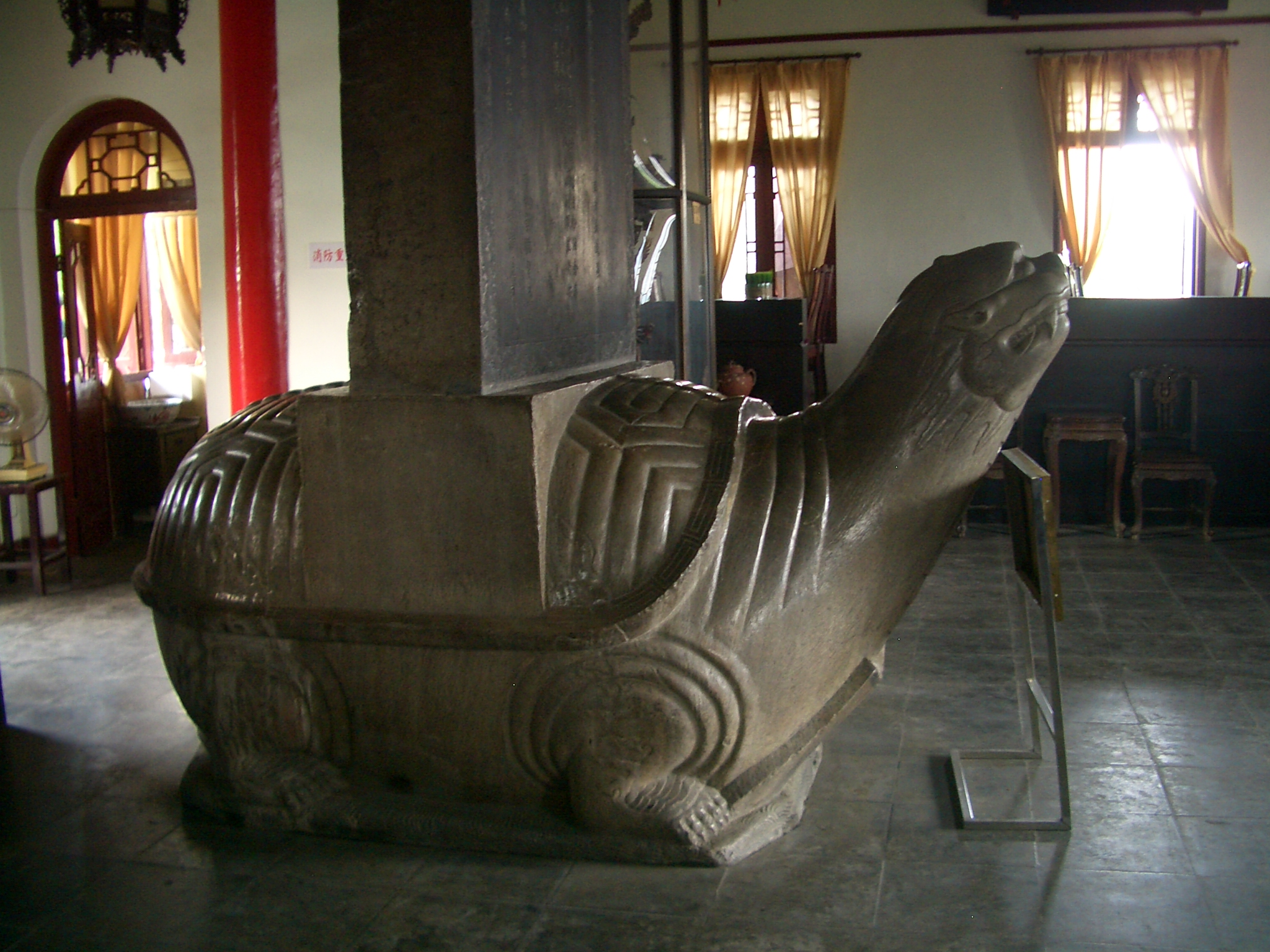 A tablet commemorating Kangxi Emperor's visit to Jiangning (today's Nanjing) in 1684. The tablet is held by a huge tortoise (bixi or guifu), and is housed on the second floor of the Drum Tower in central Nanjing